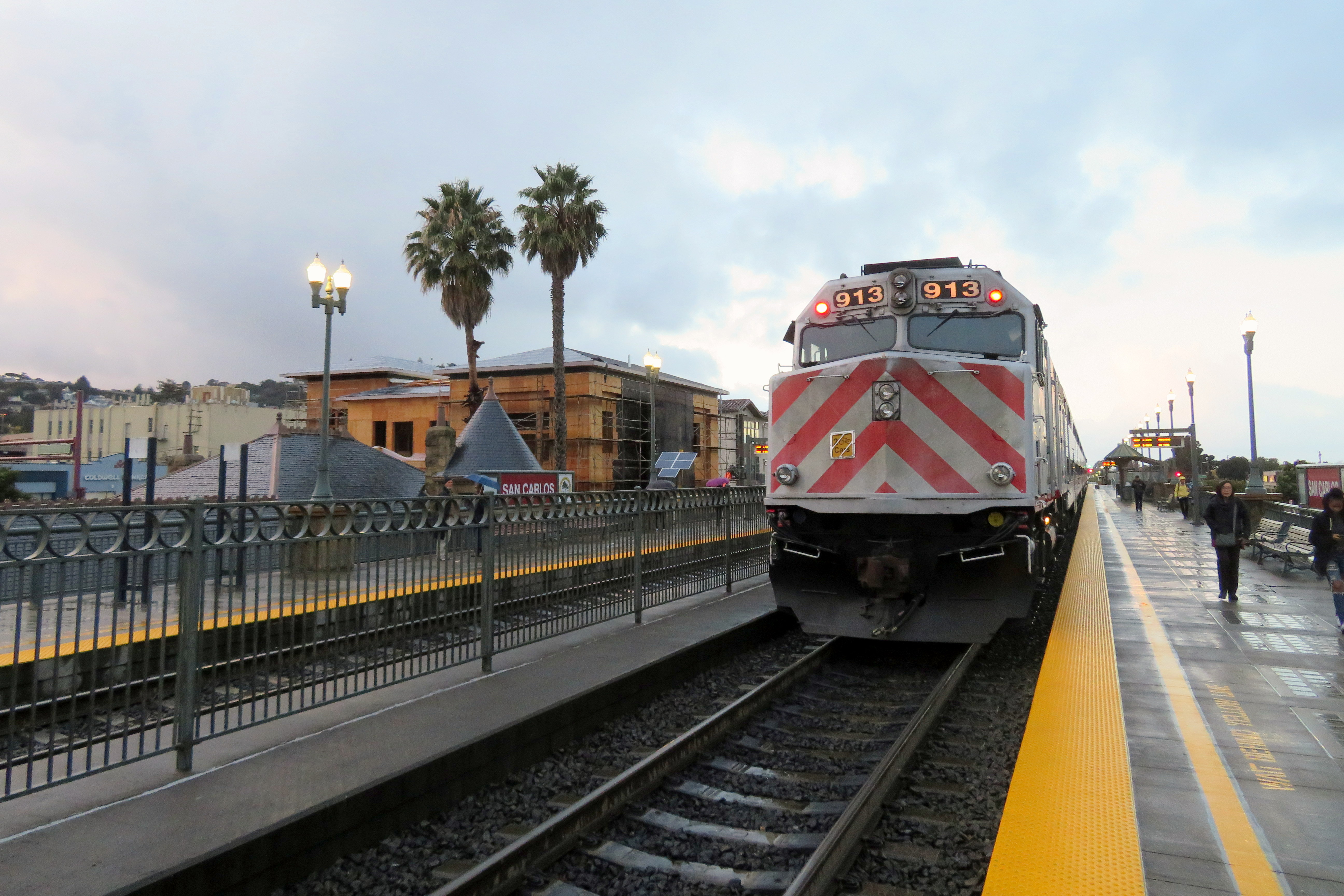 A northbound train at San Carlos station in November 2018